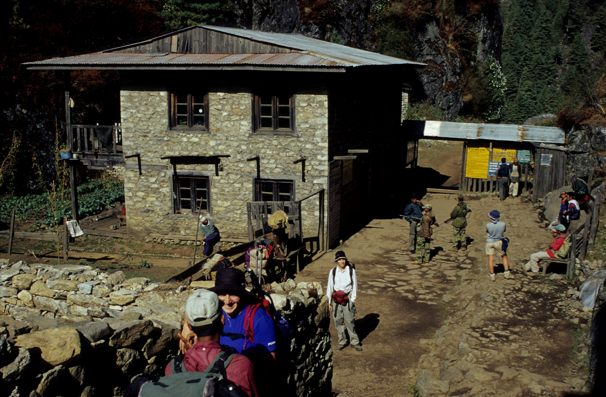 Entrance to Sagarmatha National Park in Nepal. Picture taken 2001